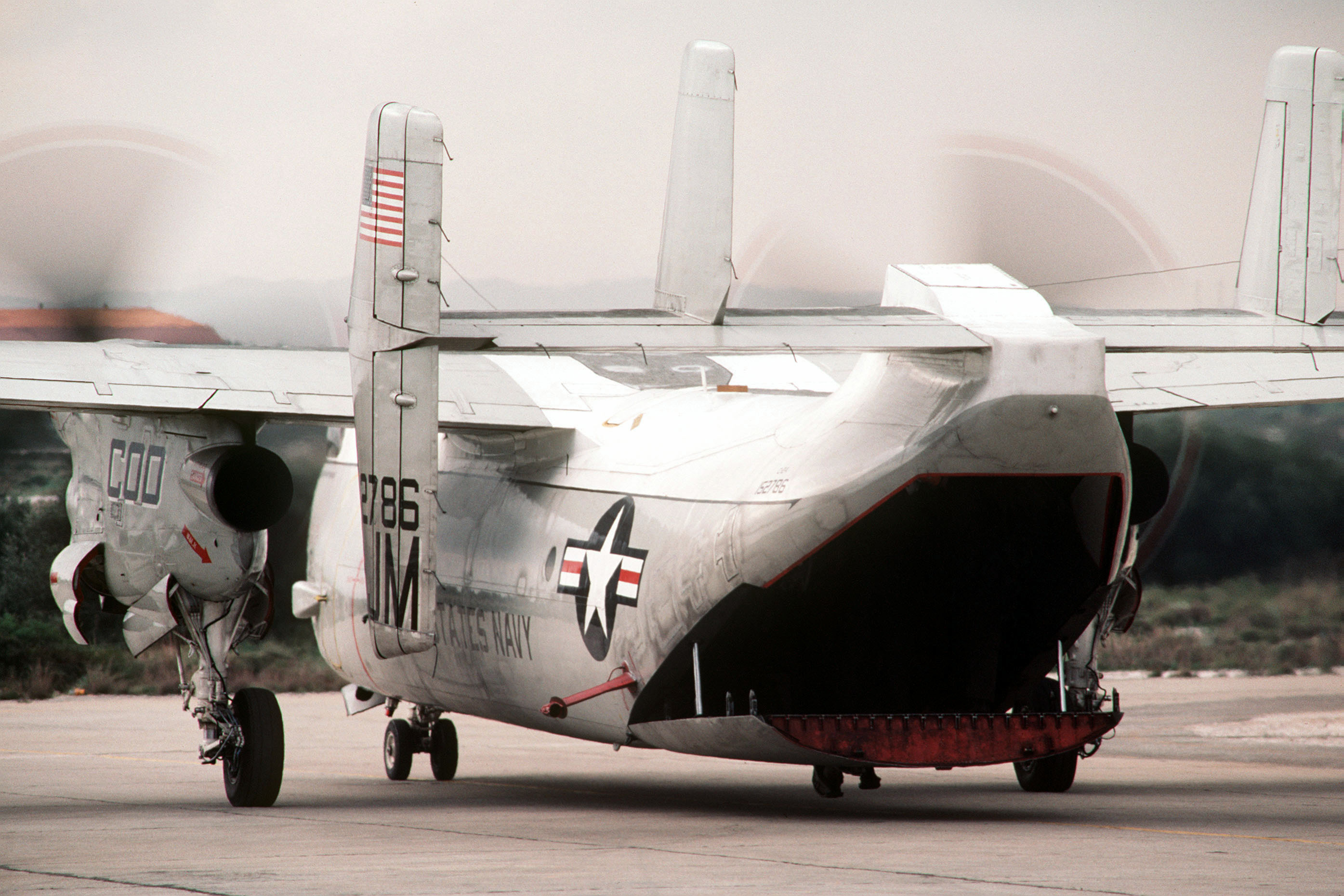 A Grumman C-2A Greyhound COD aircraft from Fleet Logistics Support Squadron VR-24 Lifting Eagles taxis prior to takeoff on a flight to the aircraft carrier USS John F. Kennedy (CV-67) off the coast of Lebanon on 1 Feb 1984. The C-2A BuNo. 152786 was the first Greyhound delivered in 1966.